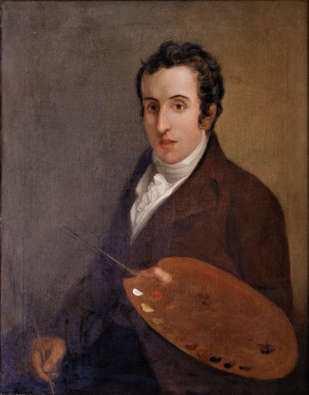 Portrait of Vieira Portuense, by José Teixeira Barreto; in the collection of the Soares dos Reis National Museum, Porto, Portugal.